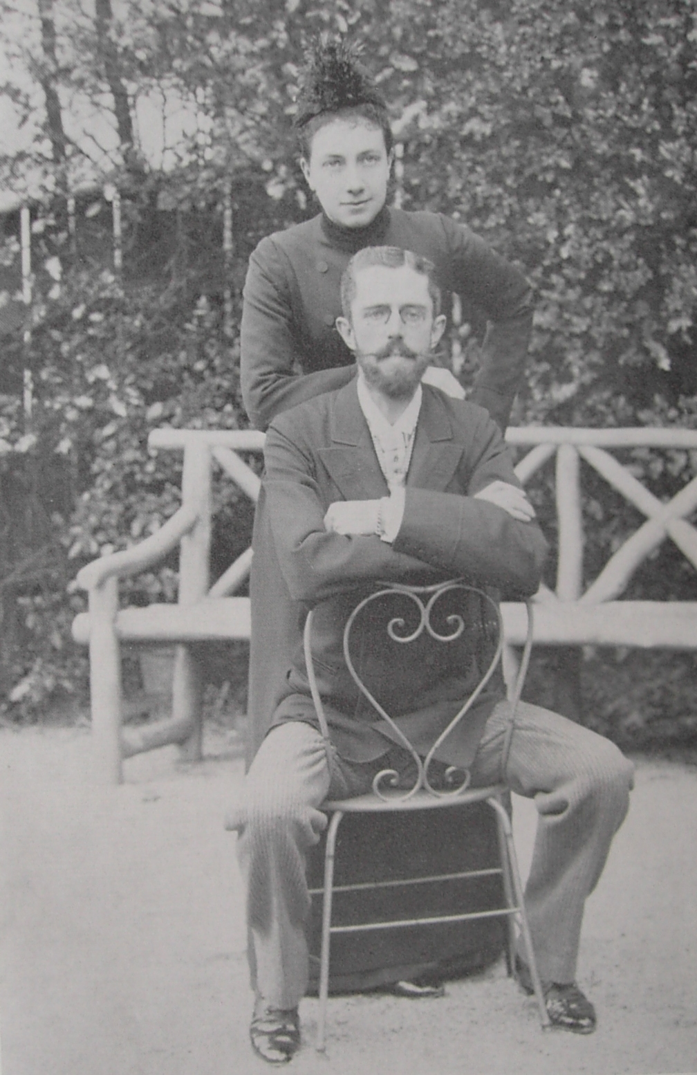 Crown princess Victoria and Crown prince Gustav in Baden-Baden, 1890